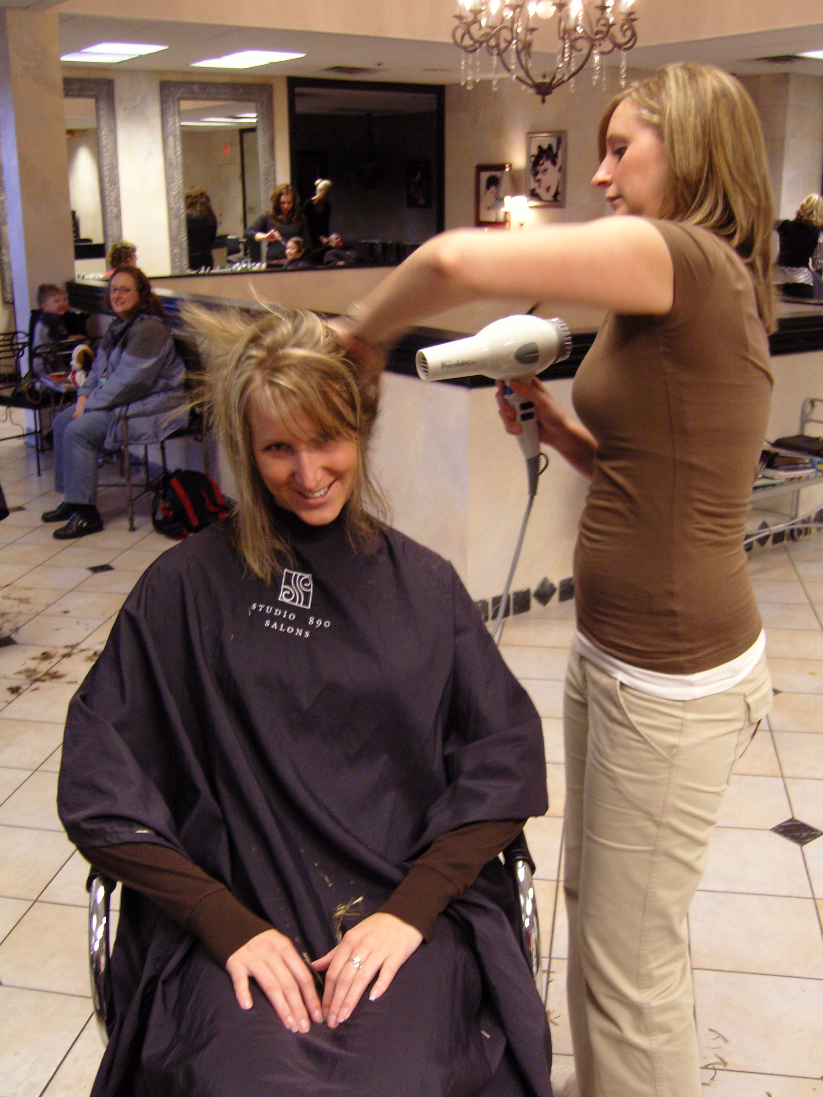 Woman in a salon drying another's blonde hair with a hair dryer.